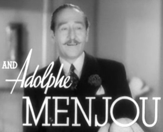 Screenshot of Adolphe Menjou from the trailer for the film Stage Door.